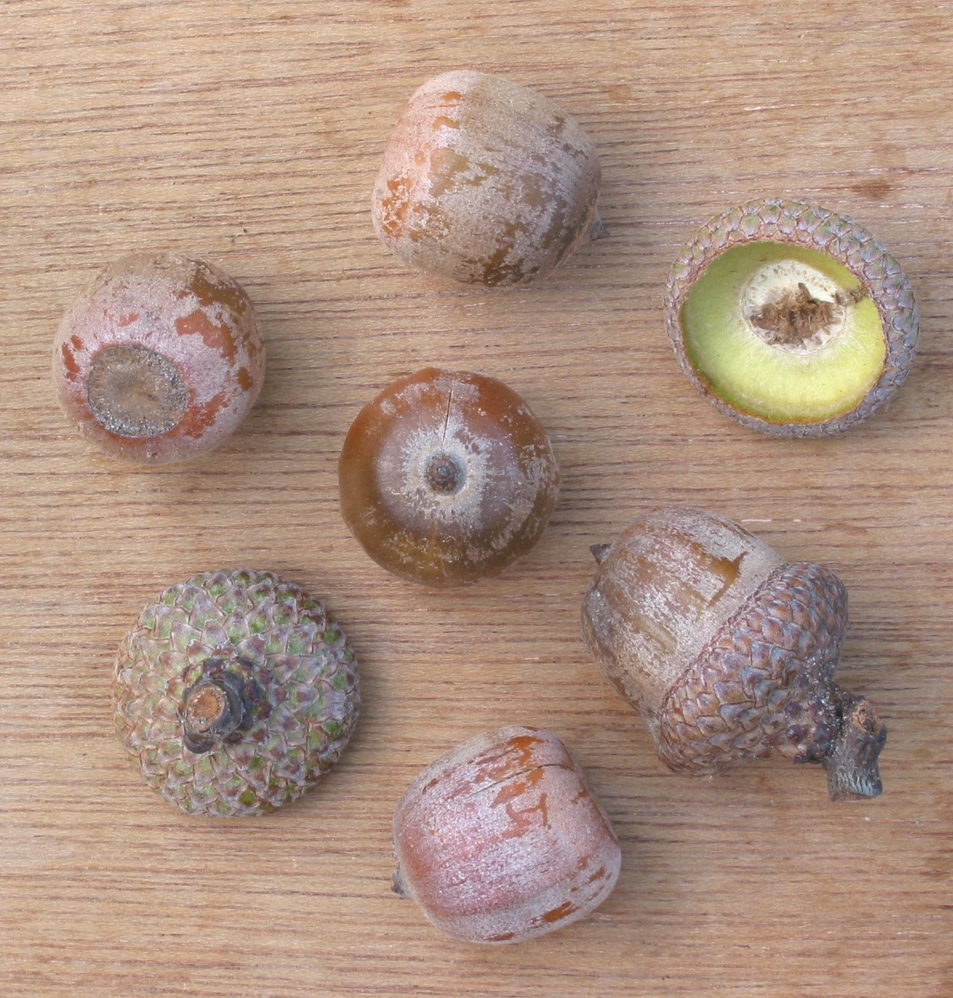 Quercus rubra acorns